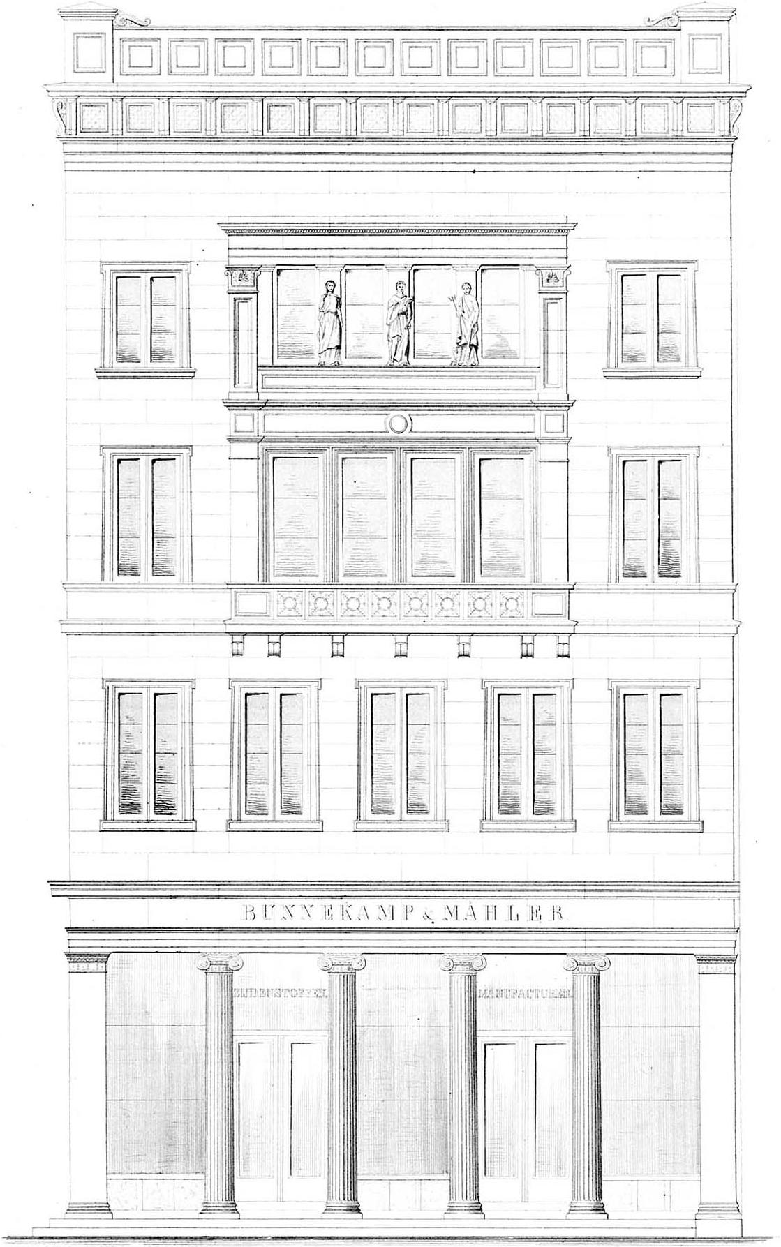 Winkelhuis Bunnekamp & Mähler, Groote Markt, Rotterdam, façade.